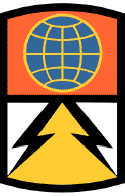 1108th Signal Brigade military badge